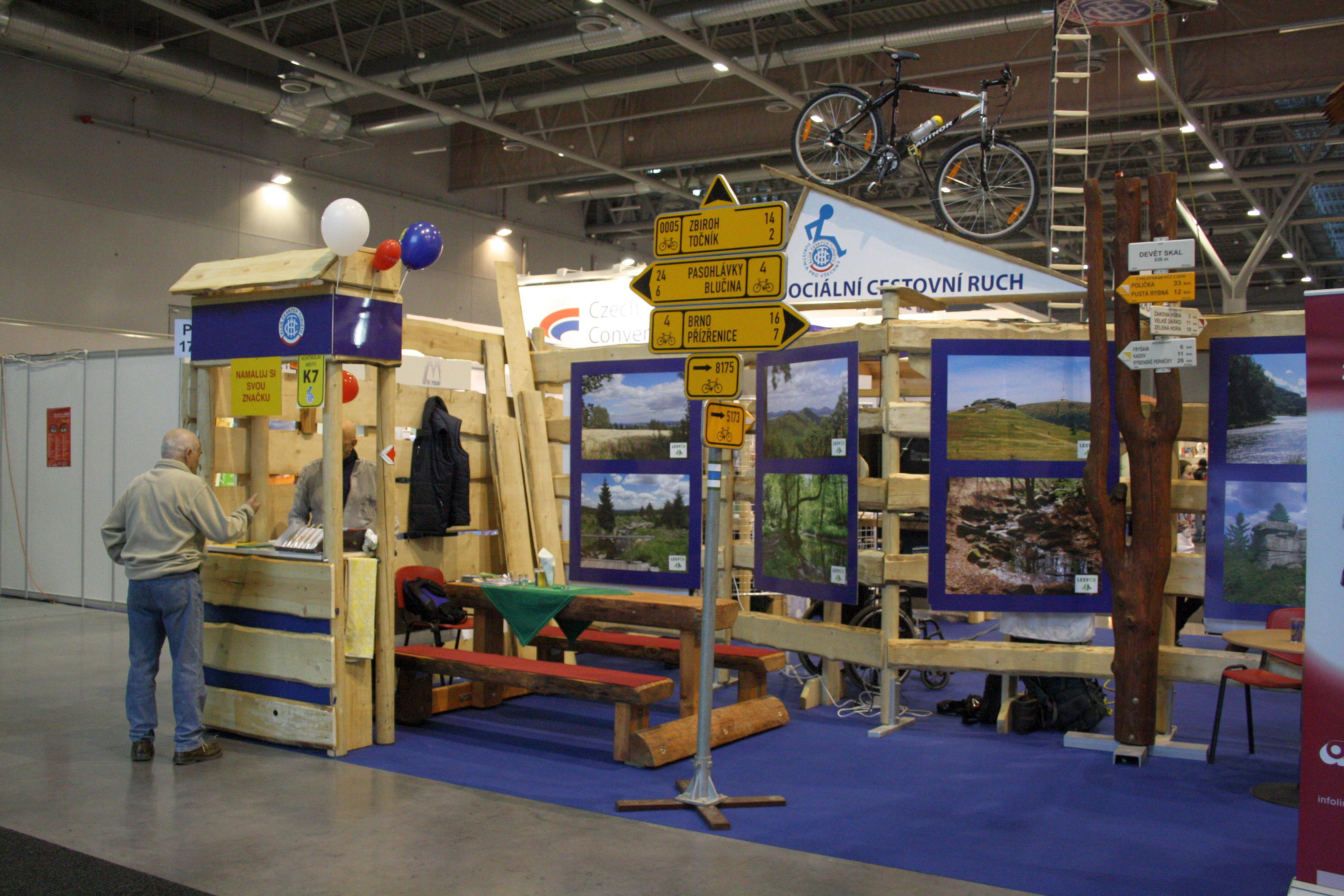 Exhibition of Klub českých turistů at Regiontour 2010.